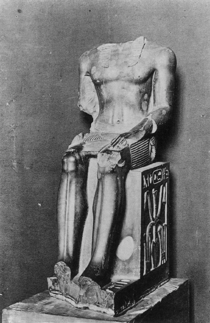 Statue of Khafra from his valley temple at Giza, now in the Egyptian Museum, Cairo (CG 17)